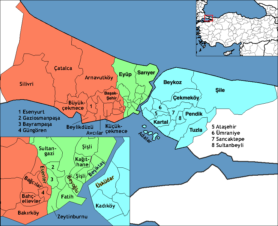 The three electoral districts in İstanbul (1st: blue, 2nd: green, 3rd: red)